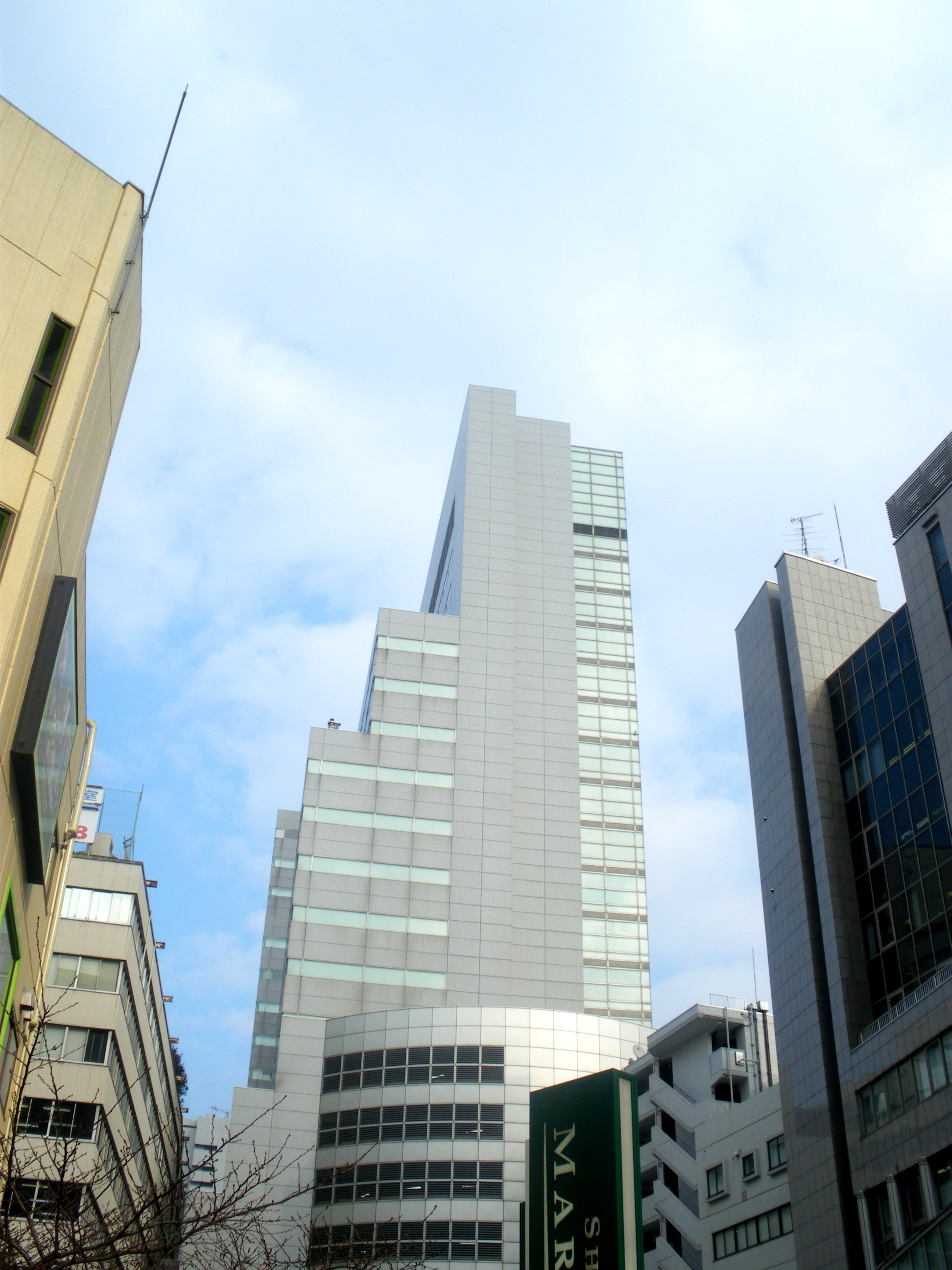 A photo of Shibuya mark city west.A representative skyscraper in Shibuya.